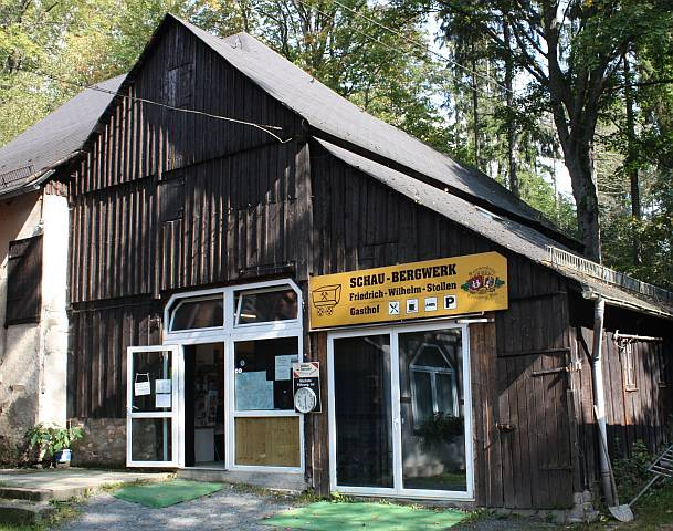 Friedrich-Wilhelm-Stollen